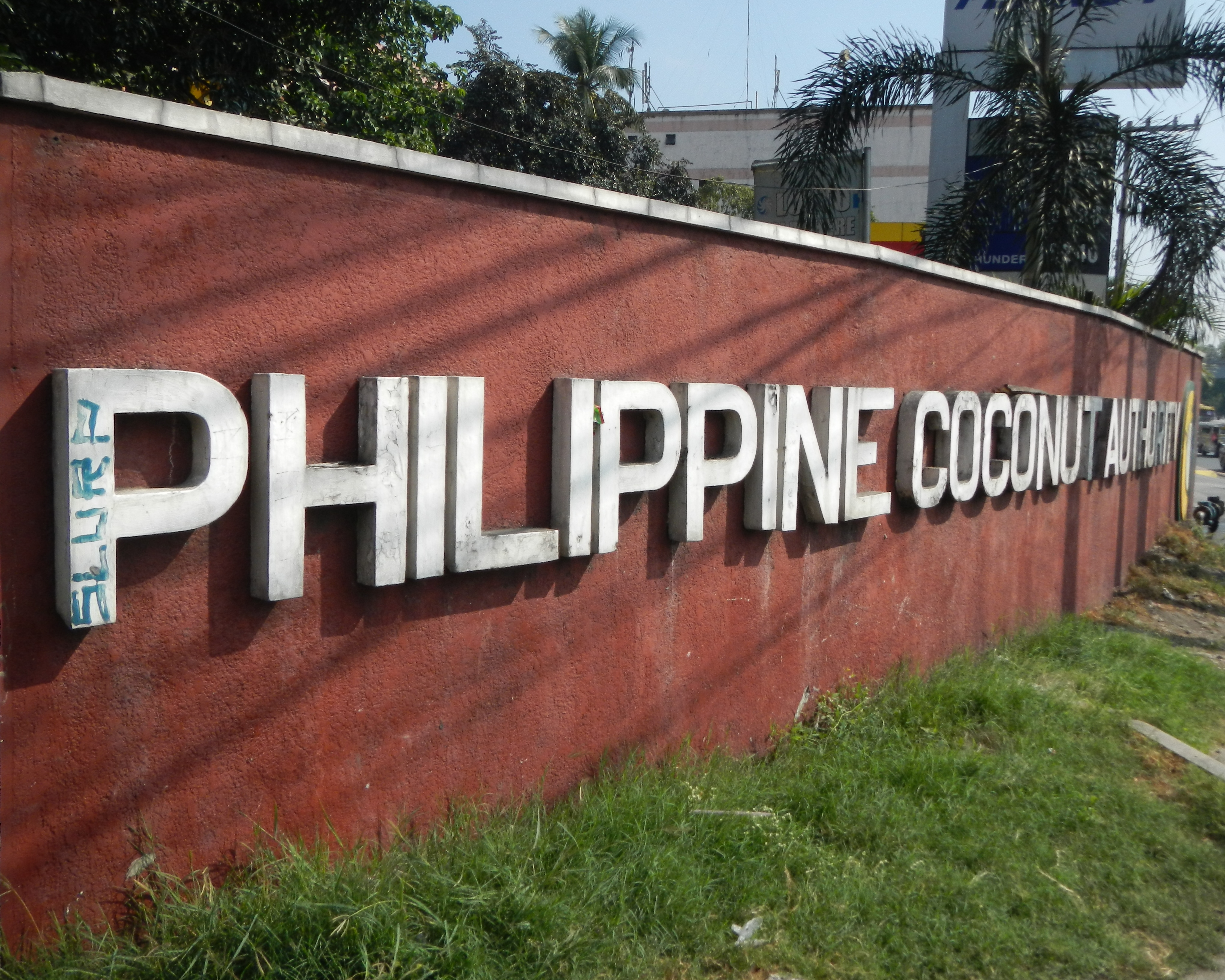 [Philippine Coconut Authority